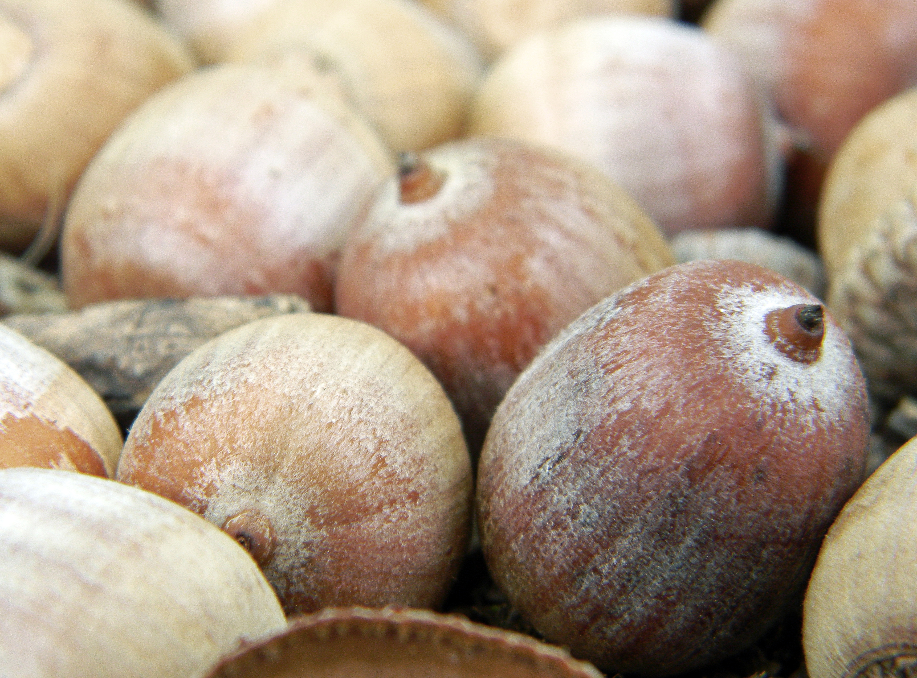 Acorns photographed in Missouri